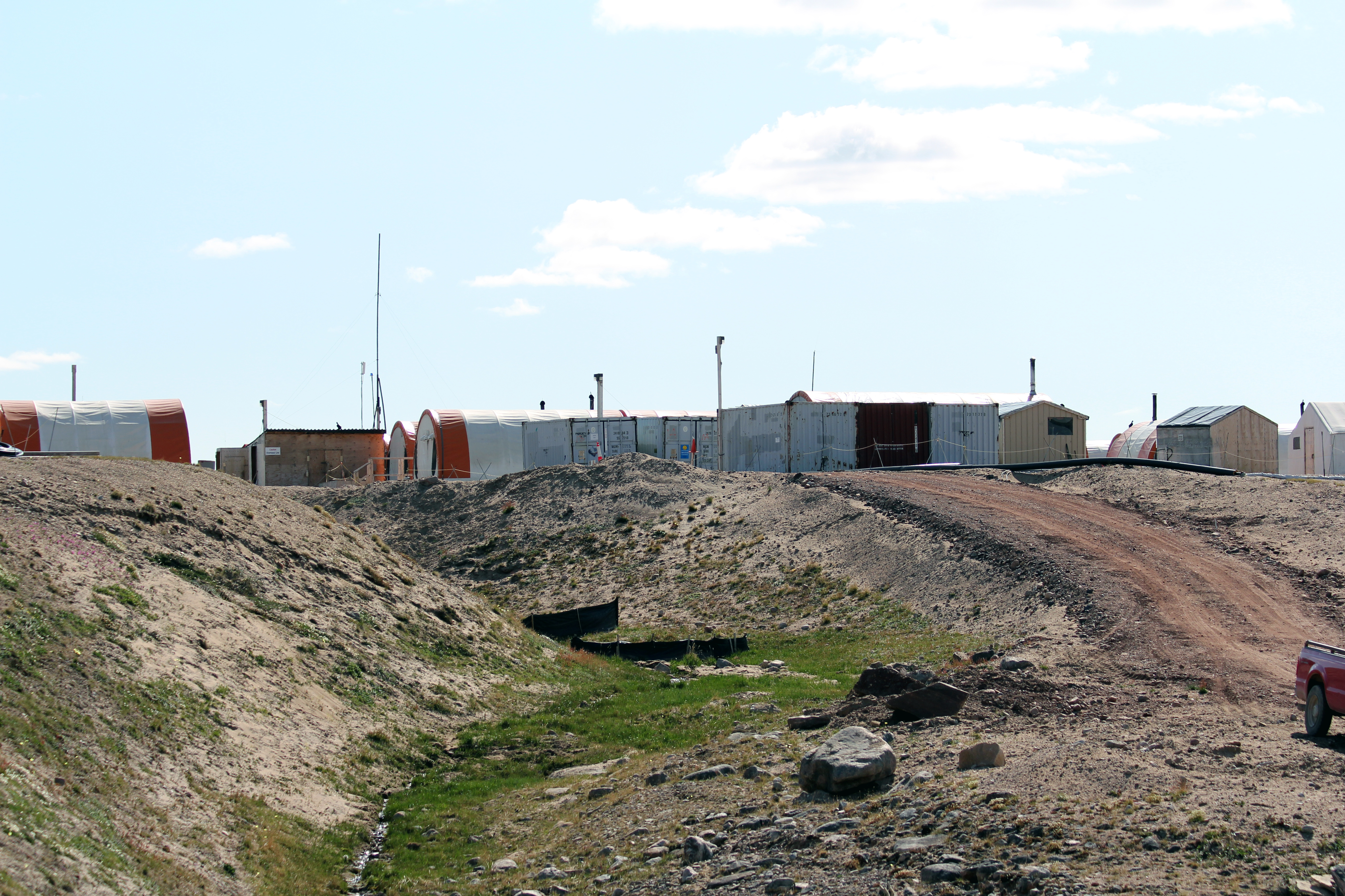 The temporary camp